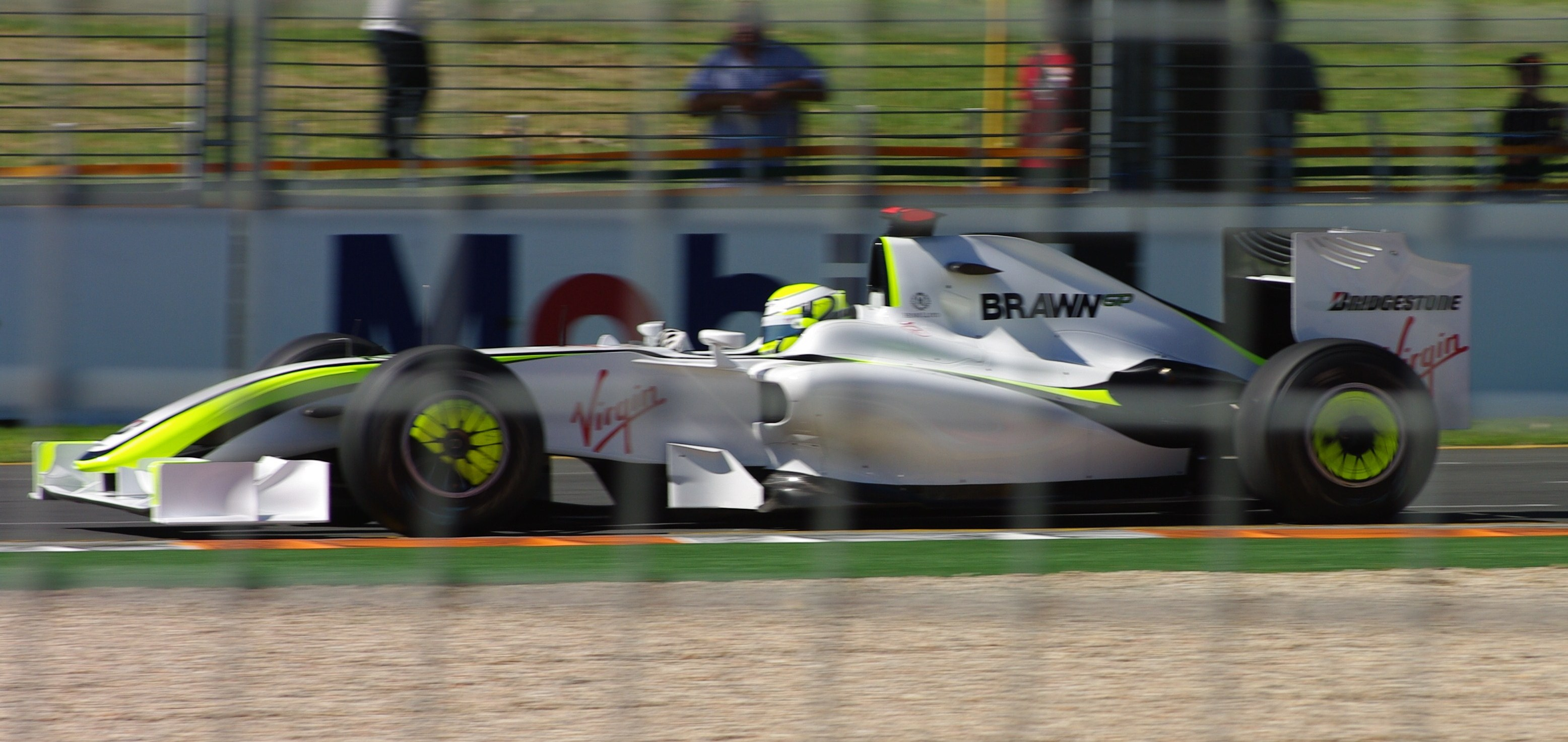 Jenson Button at 2009 Australian Grand Prix, Melbourne, Australia